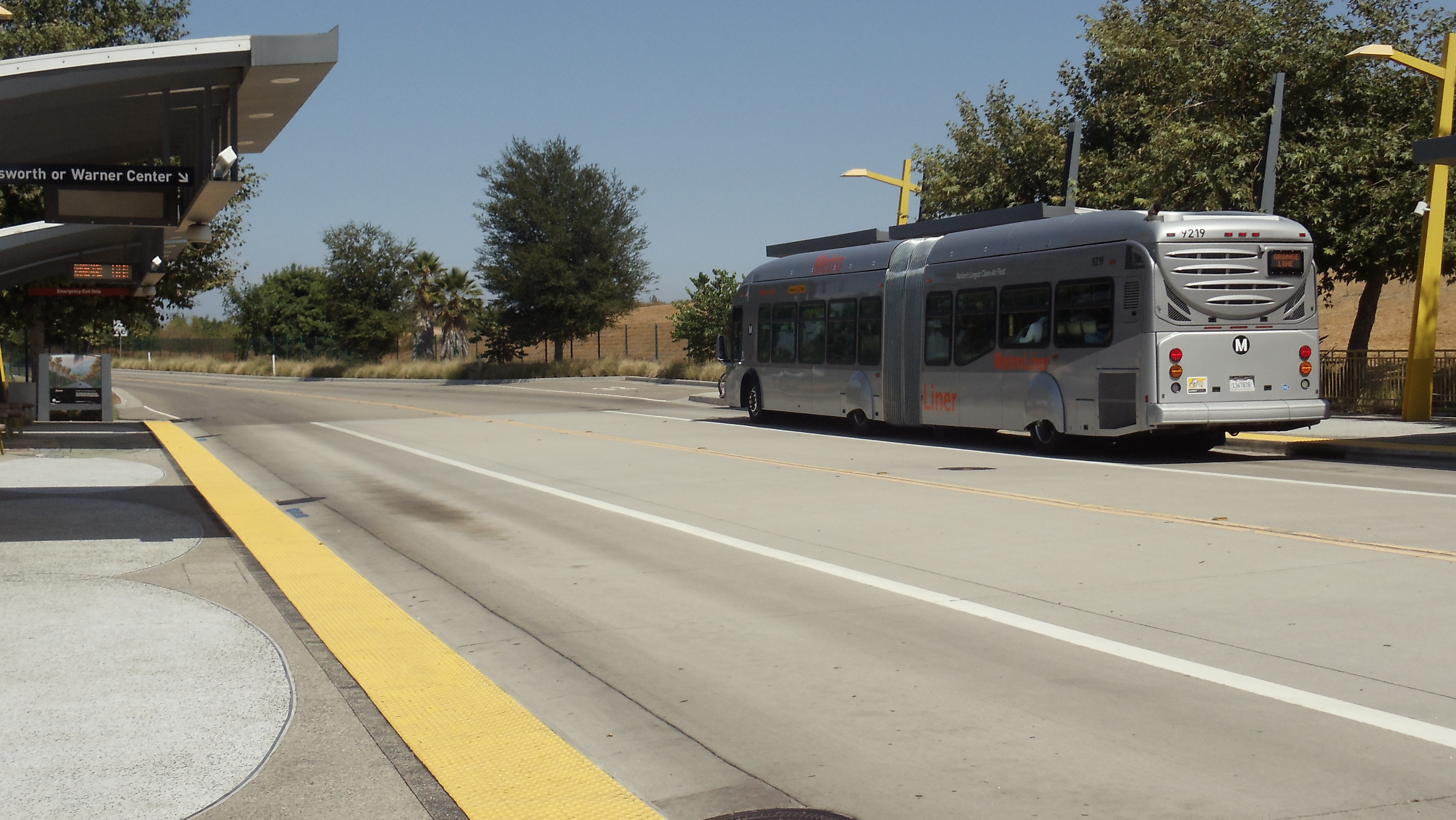 Metro Orange Line departing Balboa Station to North Hollywood.